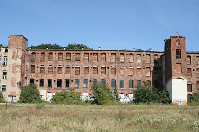 Abandoned textile factory in Gera, Germany